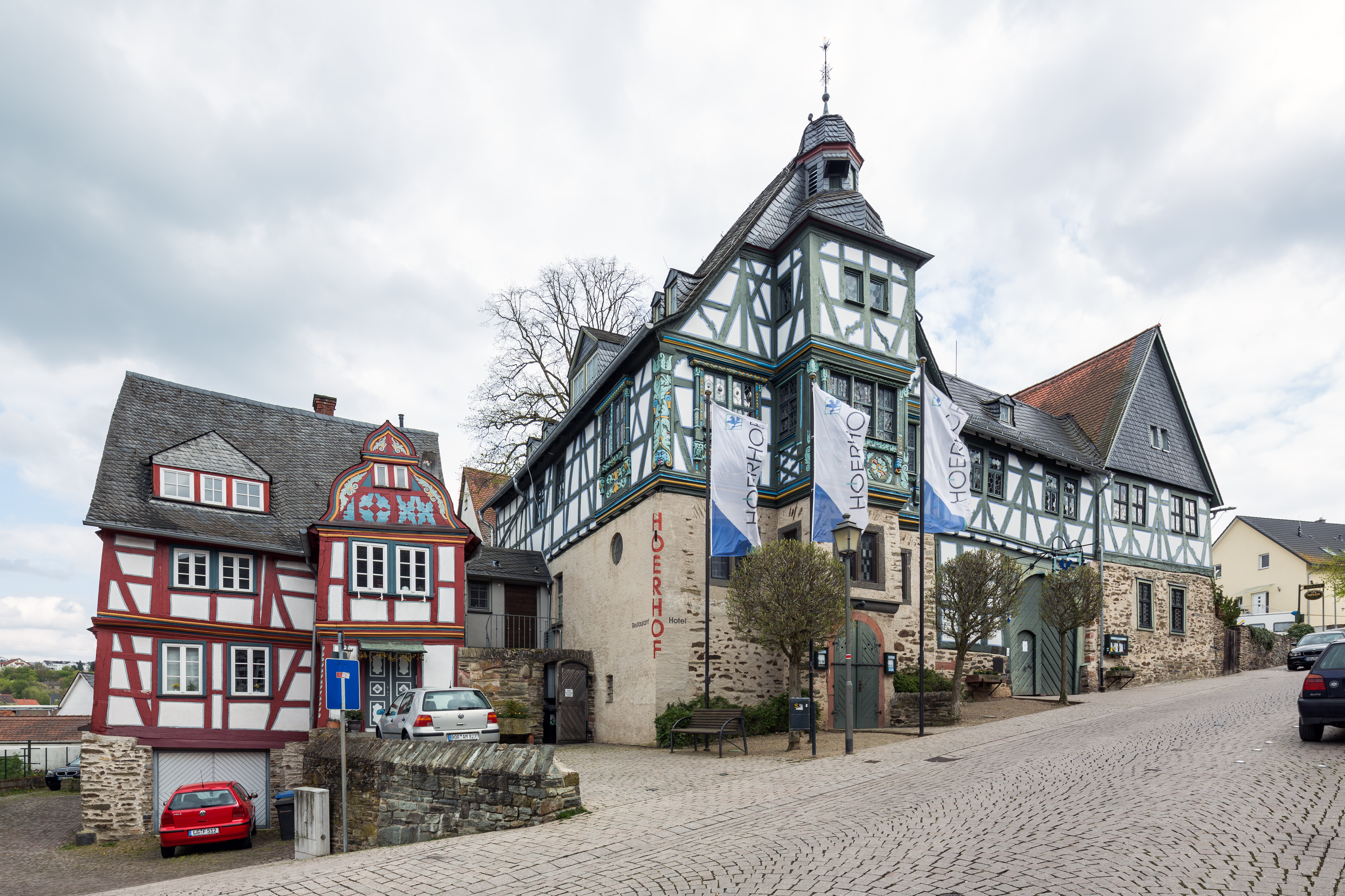 Idstein: Höerhof (Höer Court) as seen from the northwest